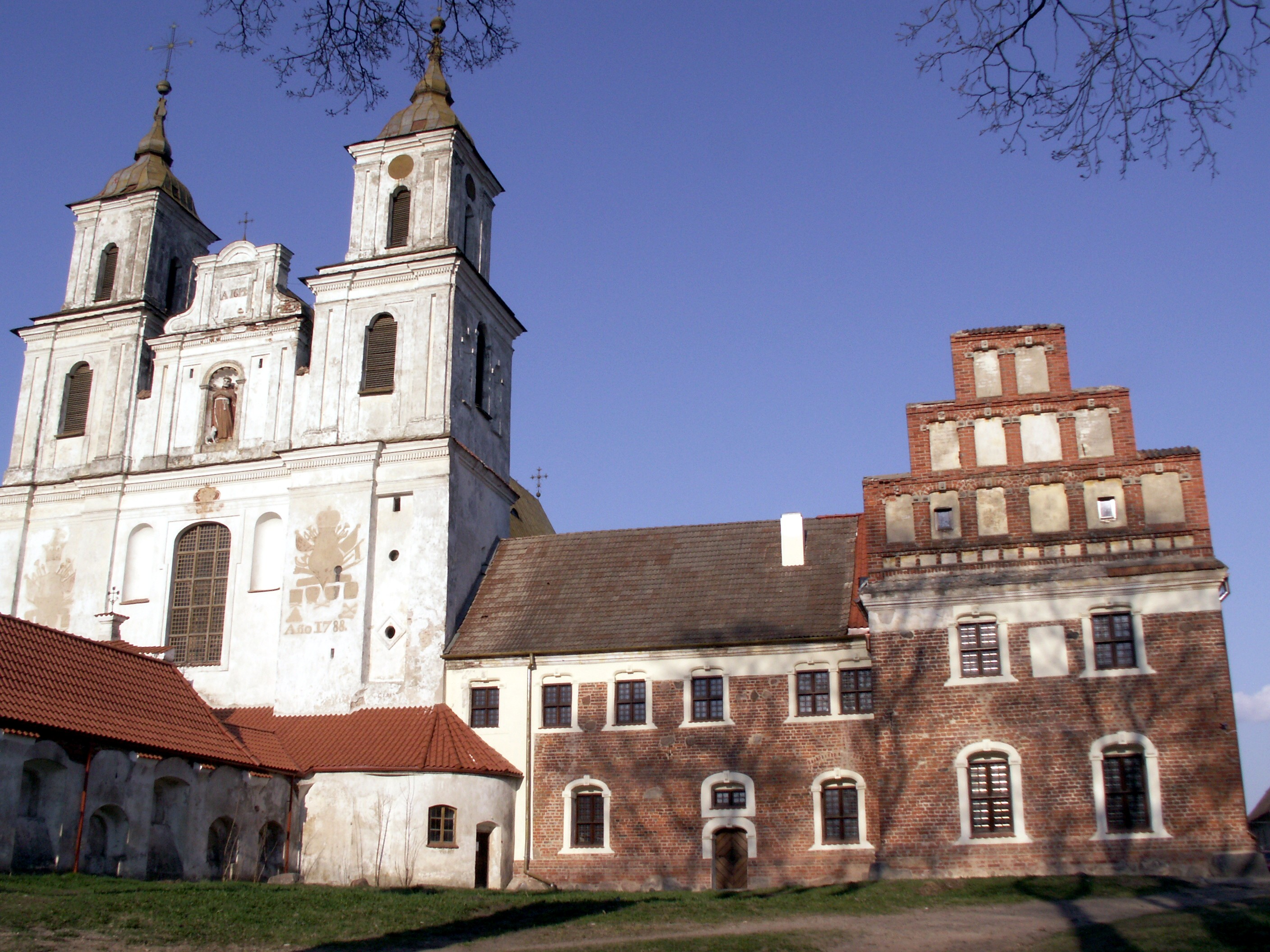 Tytuvėnai church and monastery, Kelmė district, Lithuania